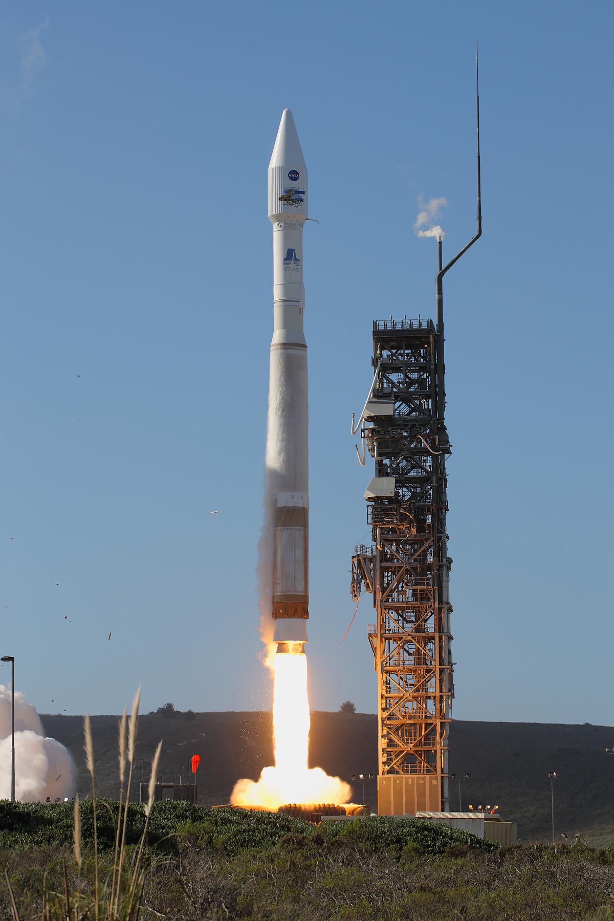 Landsat 8 - Some images from Landsat 8 launch on 11 February 2013.